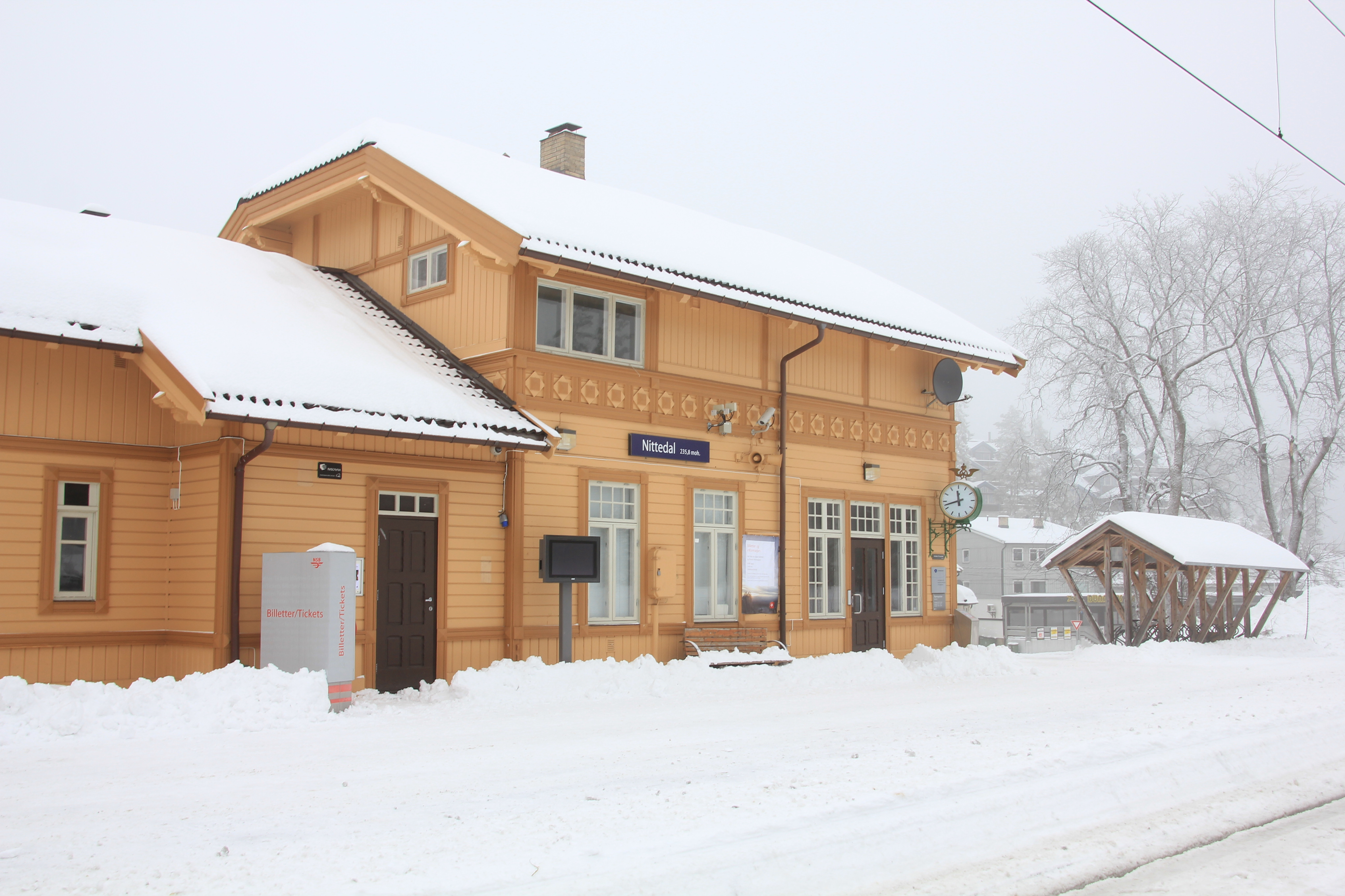 Nittedal railroad station, Akershus, Norway.